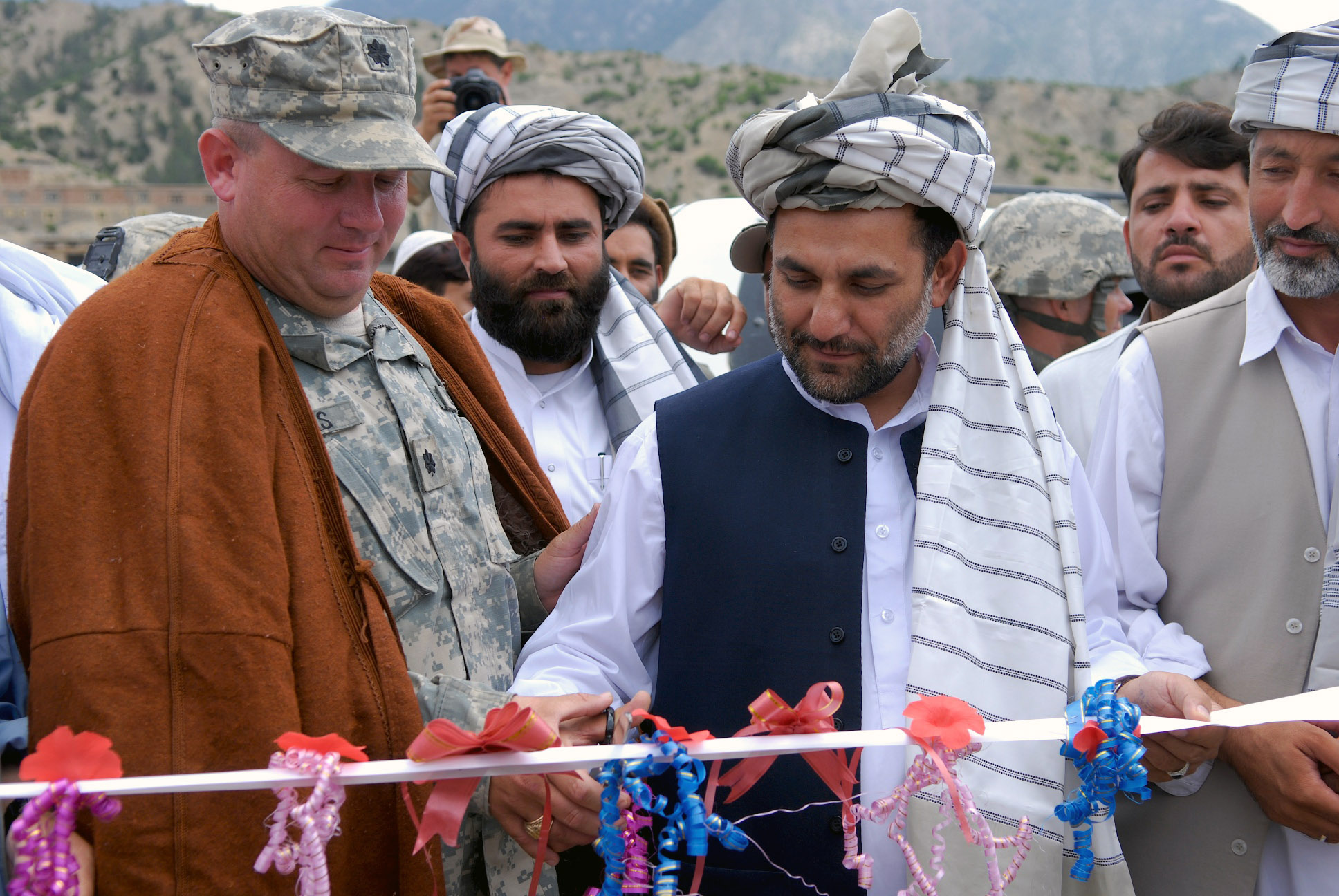 MUSA KHEL, Afghanistan (Aug. 9, 2007) - Commanding Officer Provincial Reconstruction Team Khost, U.S. Navy Cmdr. David Adams and the Governor of Afghanistan’s Khowst province, Arsala Jamal, in a uniquely Afghan tradition, cut the ribbon before laying the corner stone for Freedom High School in Musa Khel. U.S. Navy photo by Ensign Christopher Weis (RELEASED)